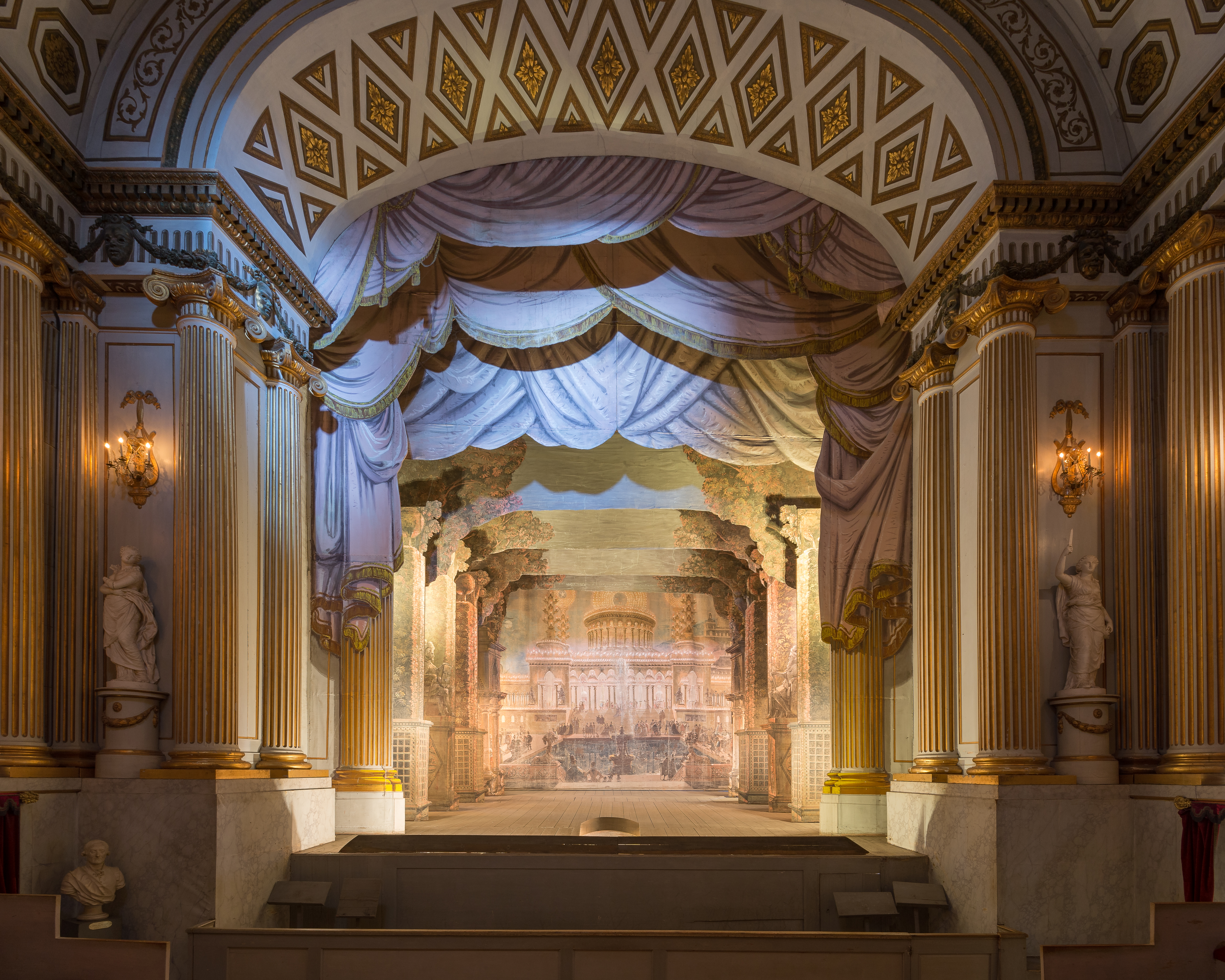 Gustav III's Theatre in Gripsholm Castle. In the 18th century king Gustav III fitted out the exquisite castle theatre in one of the round Renaissance towers of the castle. Today, the theatre is one of Europe's most well-preserved theatres from the 18th century.